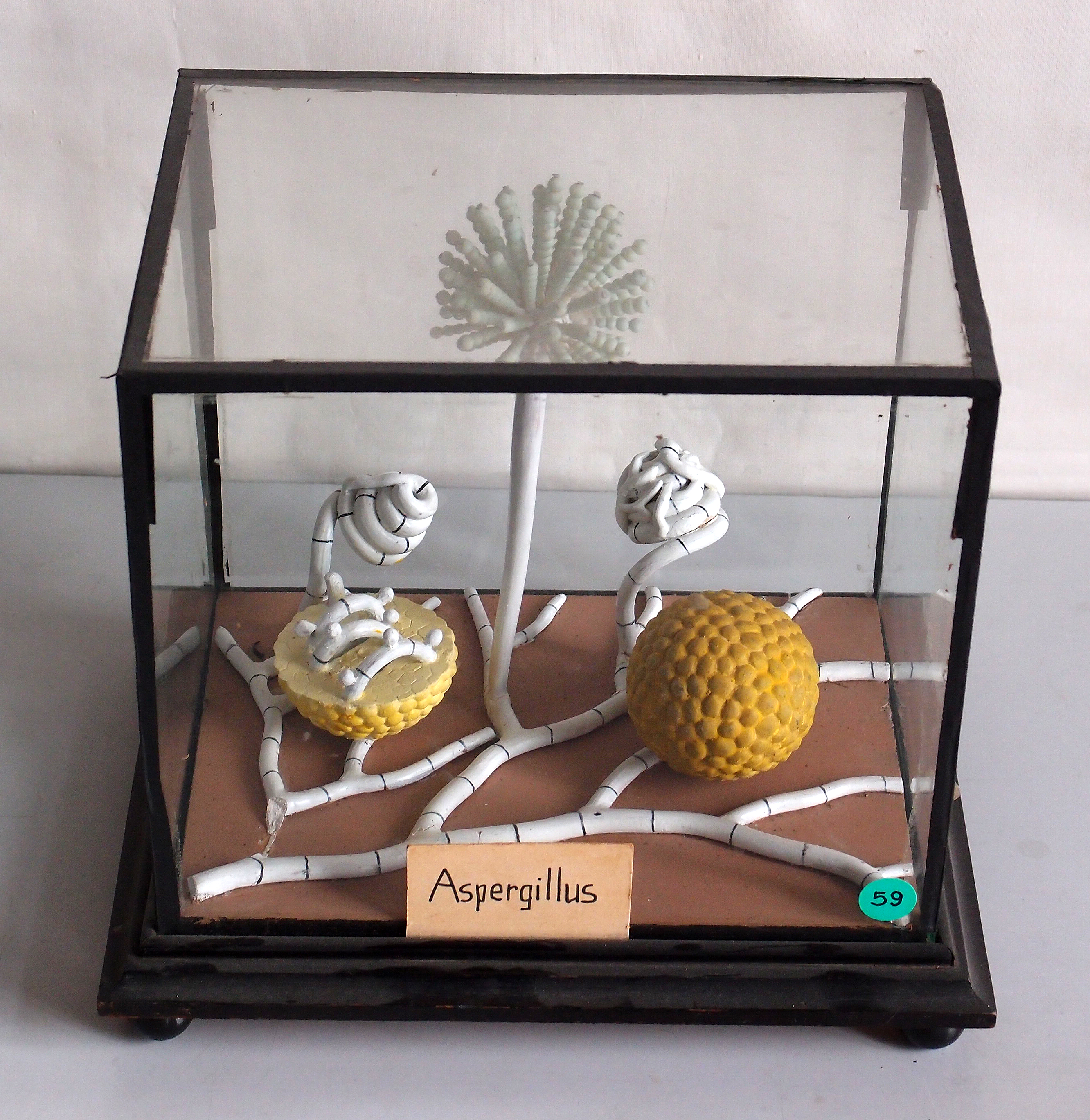 Model from the collection of the Botanical Museum in Greifswald, Germany. . see also for more information on the models